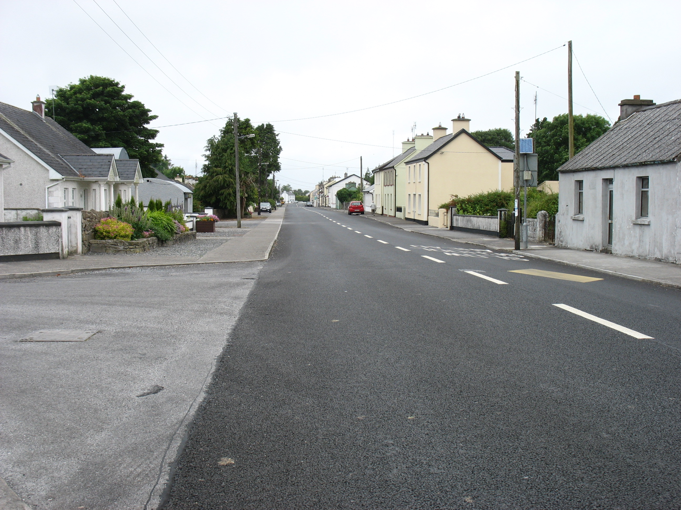 Loughglinn main street